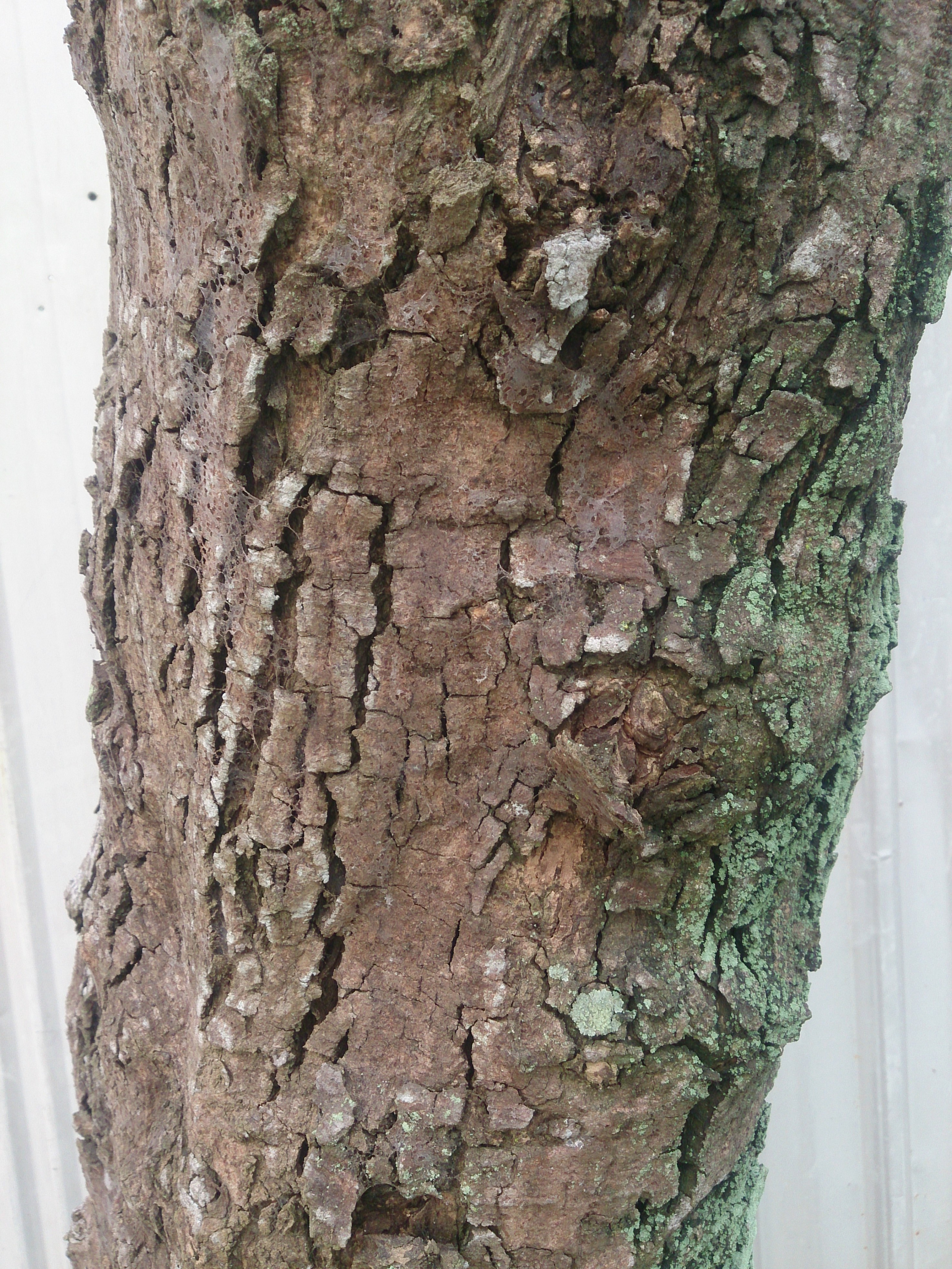 Cinnamomum iners (aka wild Cinnamomum).